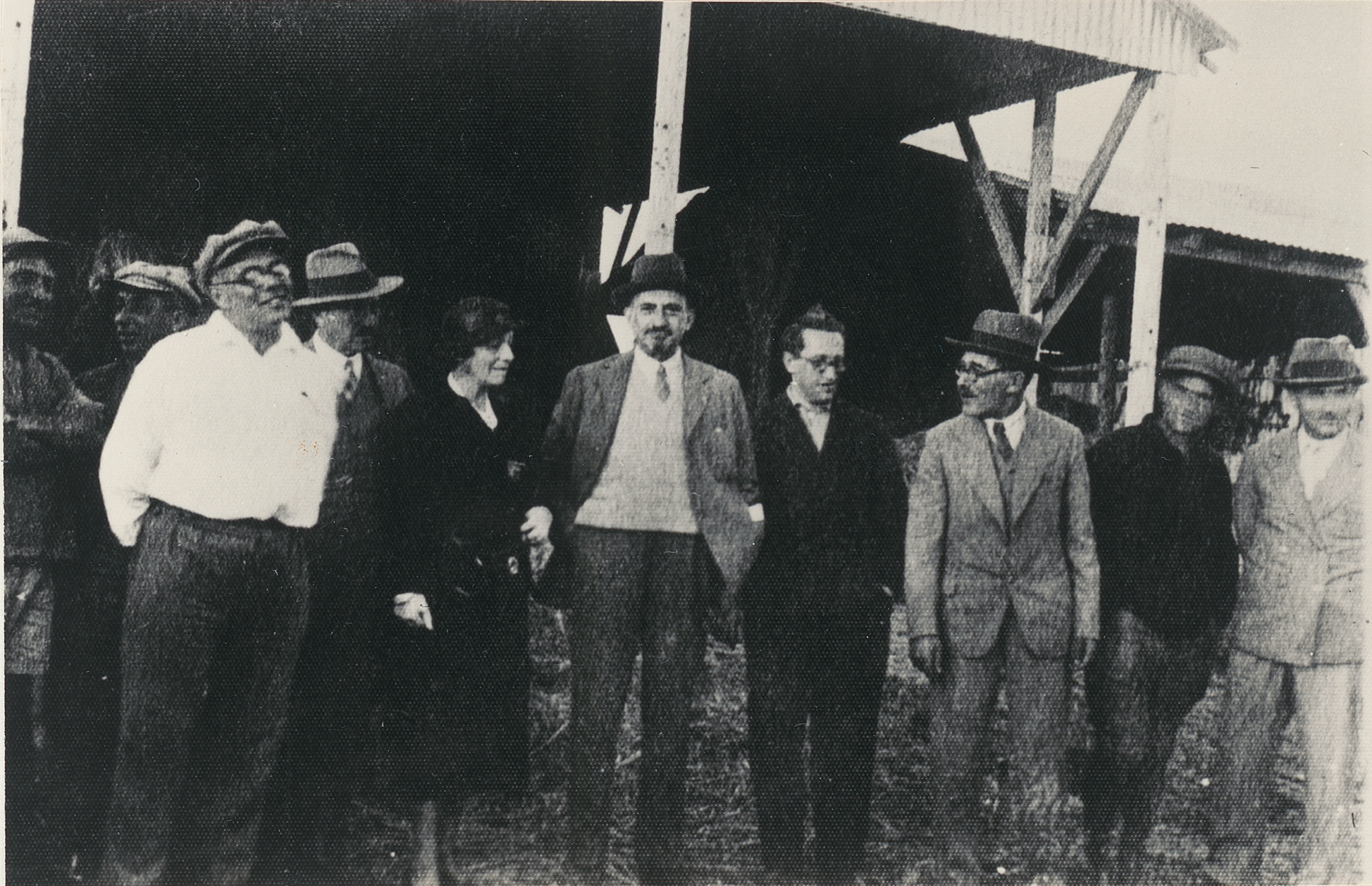 Levi Eschol